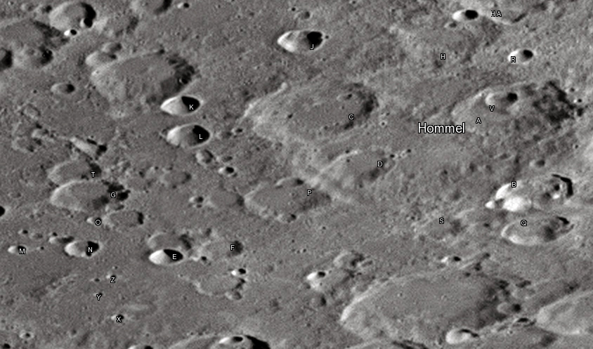 Hommel lunar crater as seen from Earth with satellite craters labeled